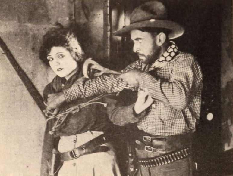 Still from the American western film Hearts o' the Range (1921) with Alma Rayford and an unidentified actor (possibly Alfred Hewston), who in this scene is threatening her with a branding iron, on page 94 of the March 12, 1921 Exhibitors Herald.